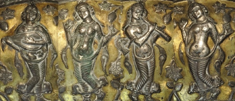 Figures dancing and playing musical instruments depicted on a Sasanian silver hemispherical bowl from the 5th-7th century AD.